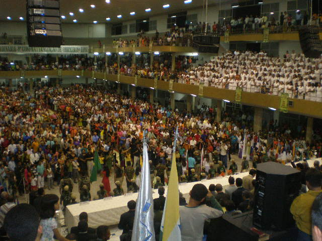 Imperatriz